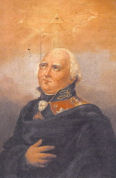 Charles of Hesse-Cassel (1744-1836)